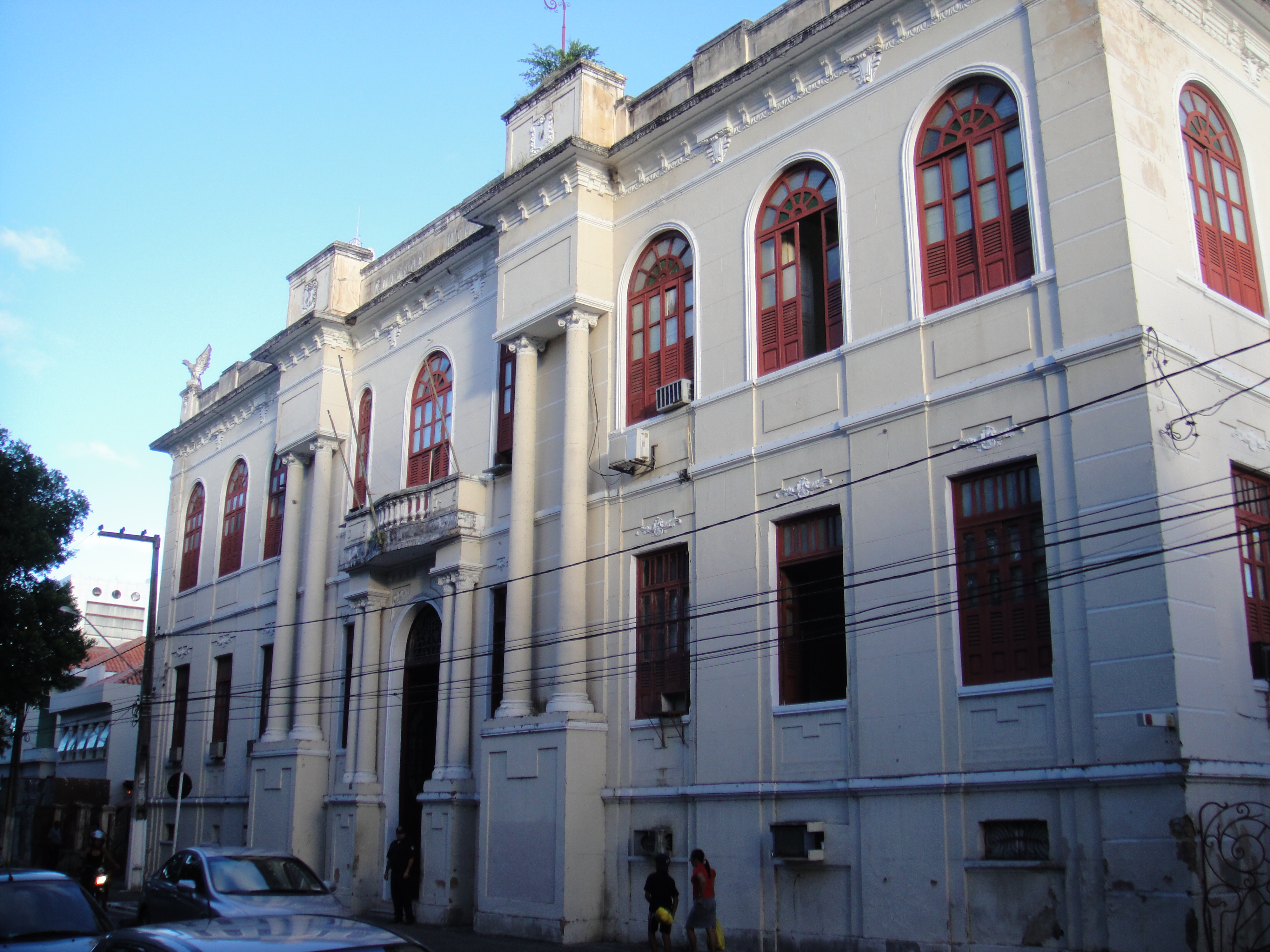 Aracaju City Hall. Olímpio Campos Square, Aracaju, State of Sergipe, Brazil.